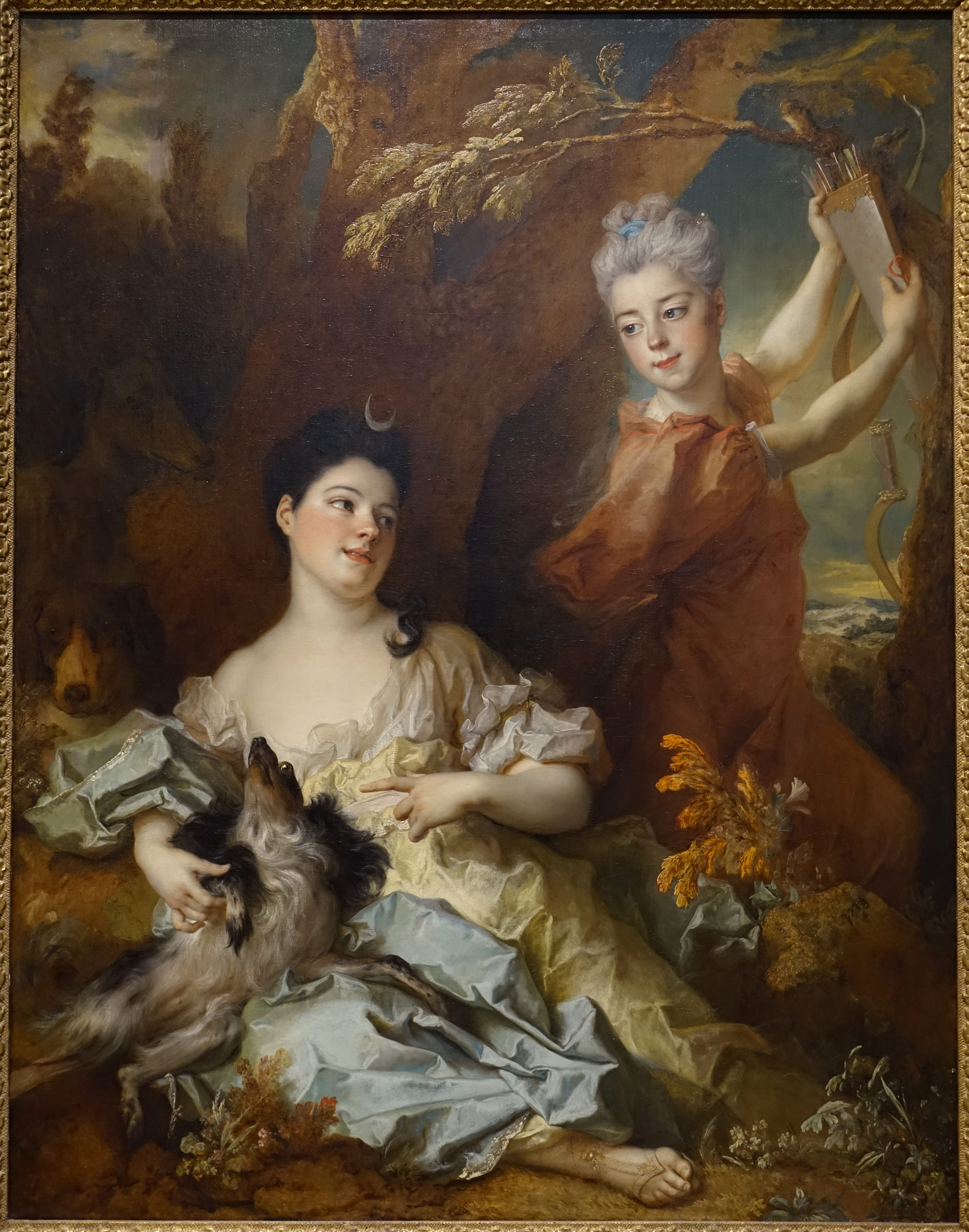 Exhibit in the Dallas Museum of Art, Dallas, Texas, USA.